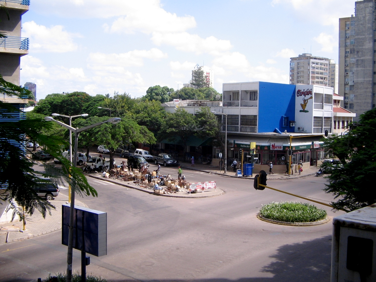 Downtown Maputo (Mozambique) on a Sunday afternoon Corner Av. 24 de Julho and Av. Julius Nyerere on the left: Polana Shopping center View from Africa2 Hotel